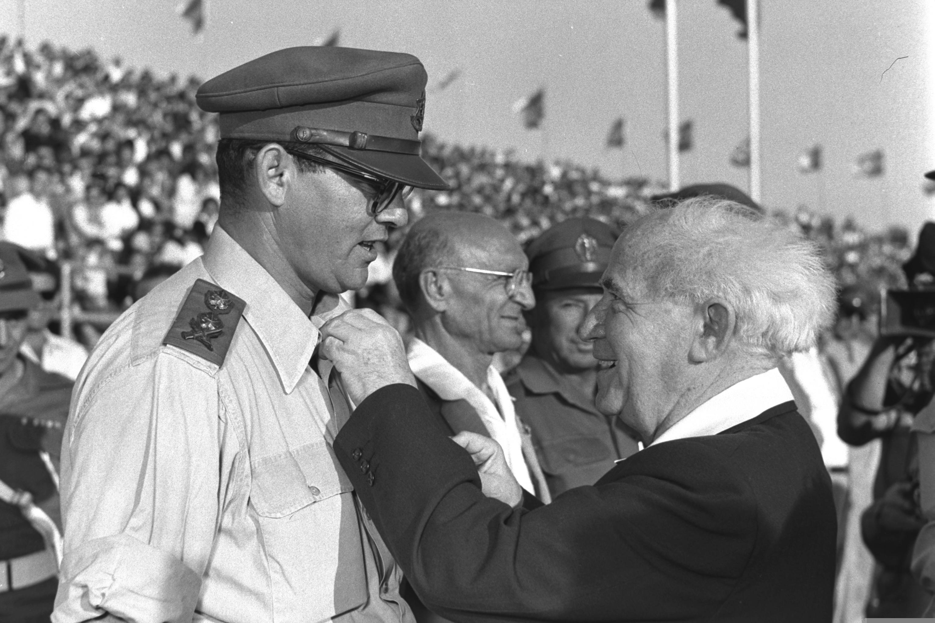 P.m. David Ben-Gurion pins the Haganah medal on the chief of staff Chaim Laskov in Jerusalem.